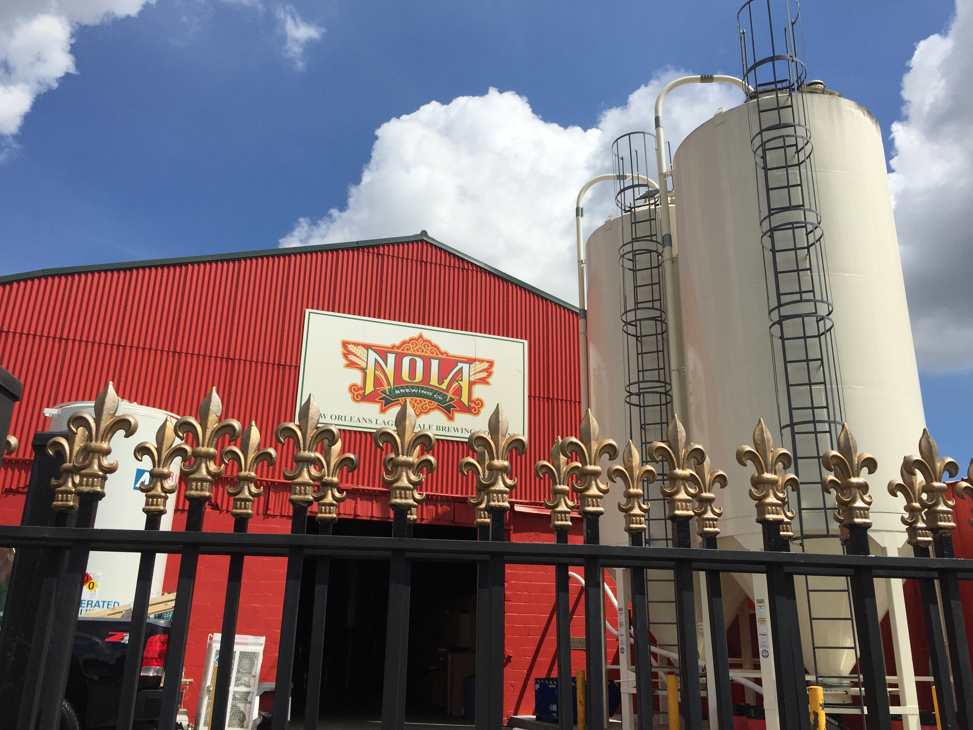 Exterior of NOLA Brewing